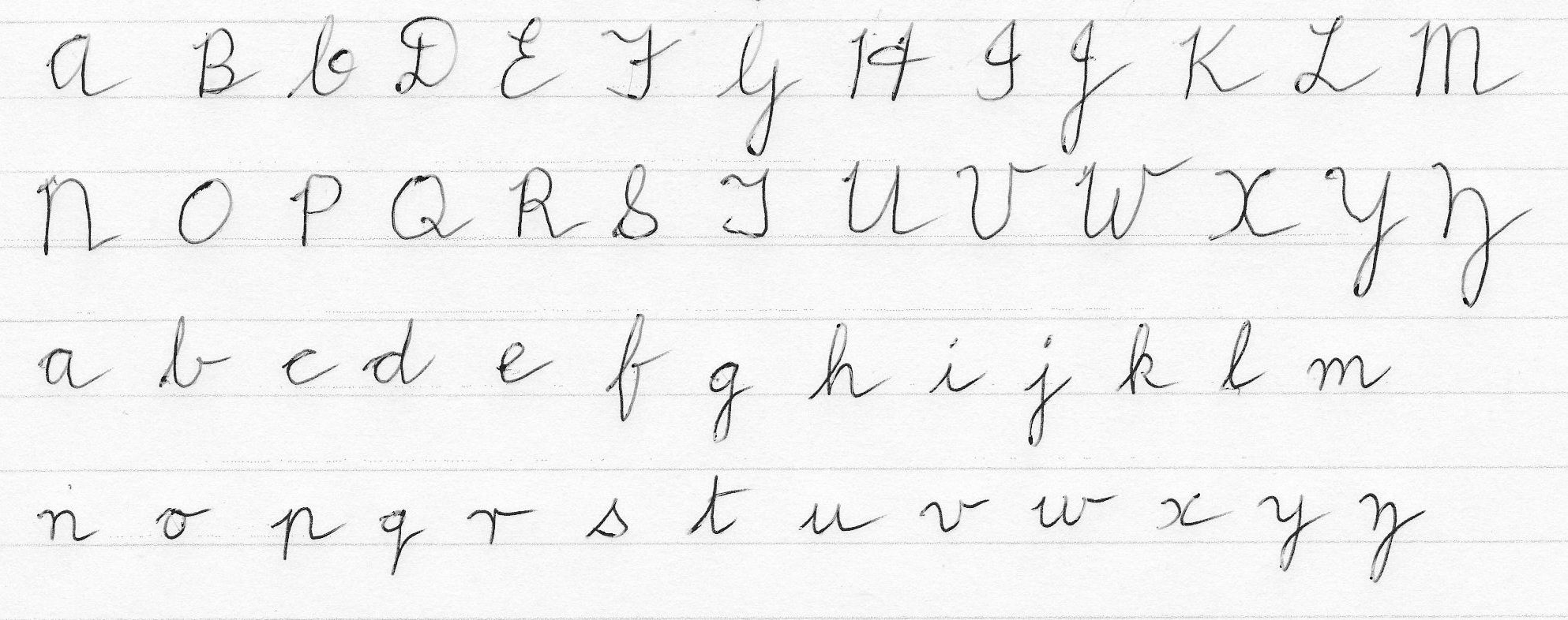 Alphabet written in looped cursive handwriting as taught in private and state schools in Britain in the mid-twentieth century. See also sample text at file:Looped cursive sample.jpg. The style of handwriting is the same as described at